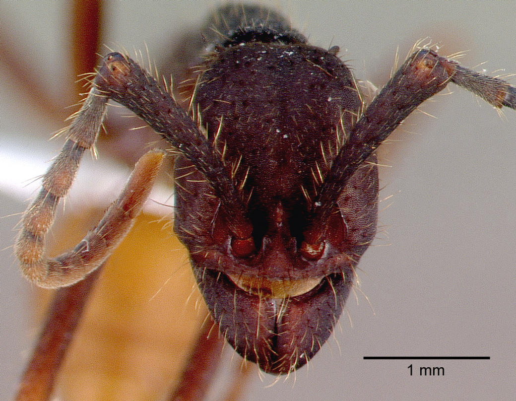 Head view of ant Eciton burchellii specimen casent0009219.